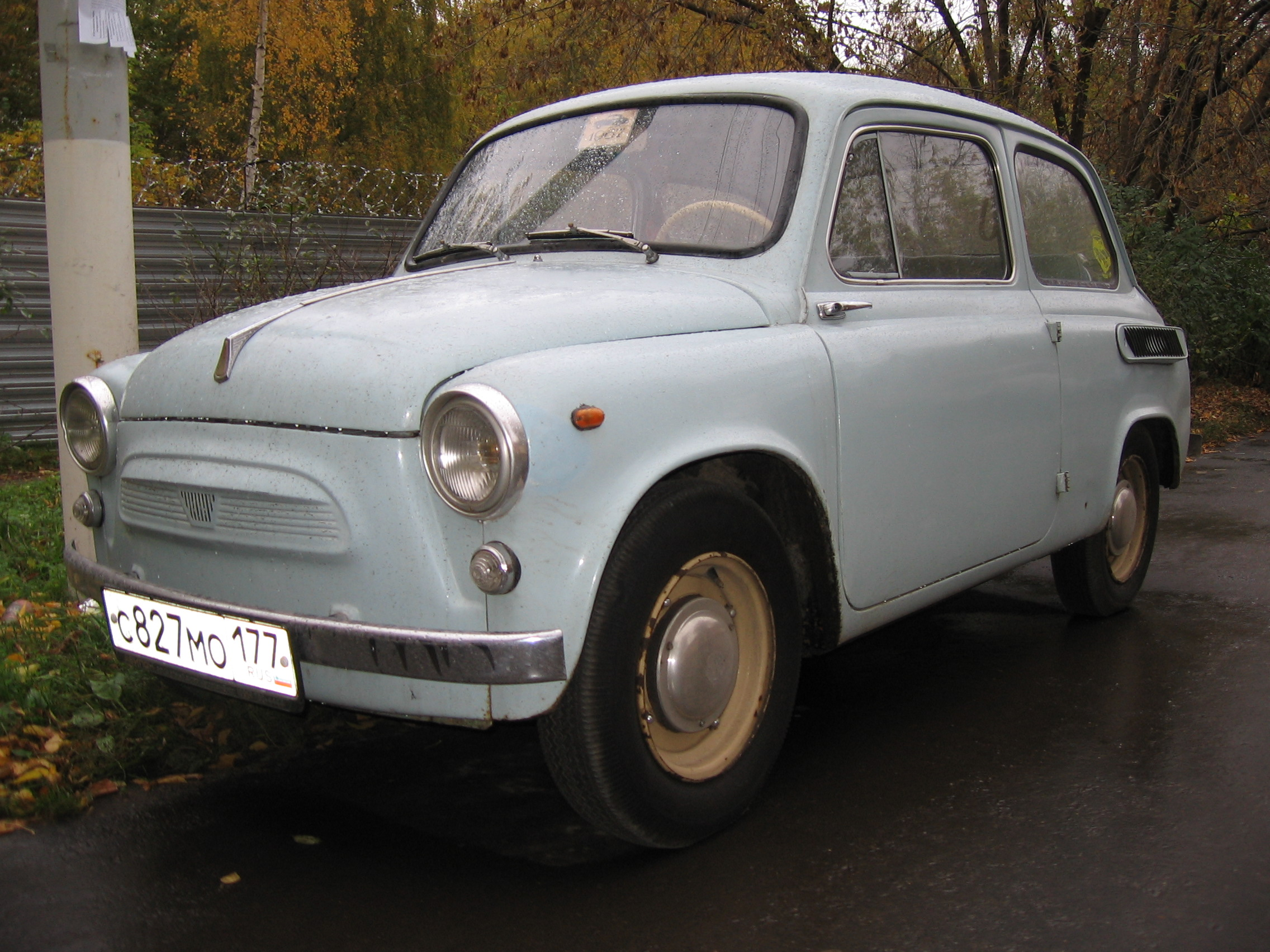 ZAZ-965A Zaporozhec in Moscow, Russia (model from 1966-69)